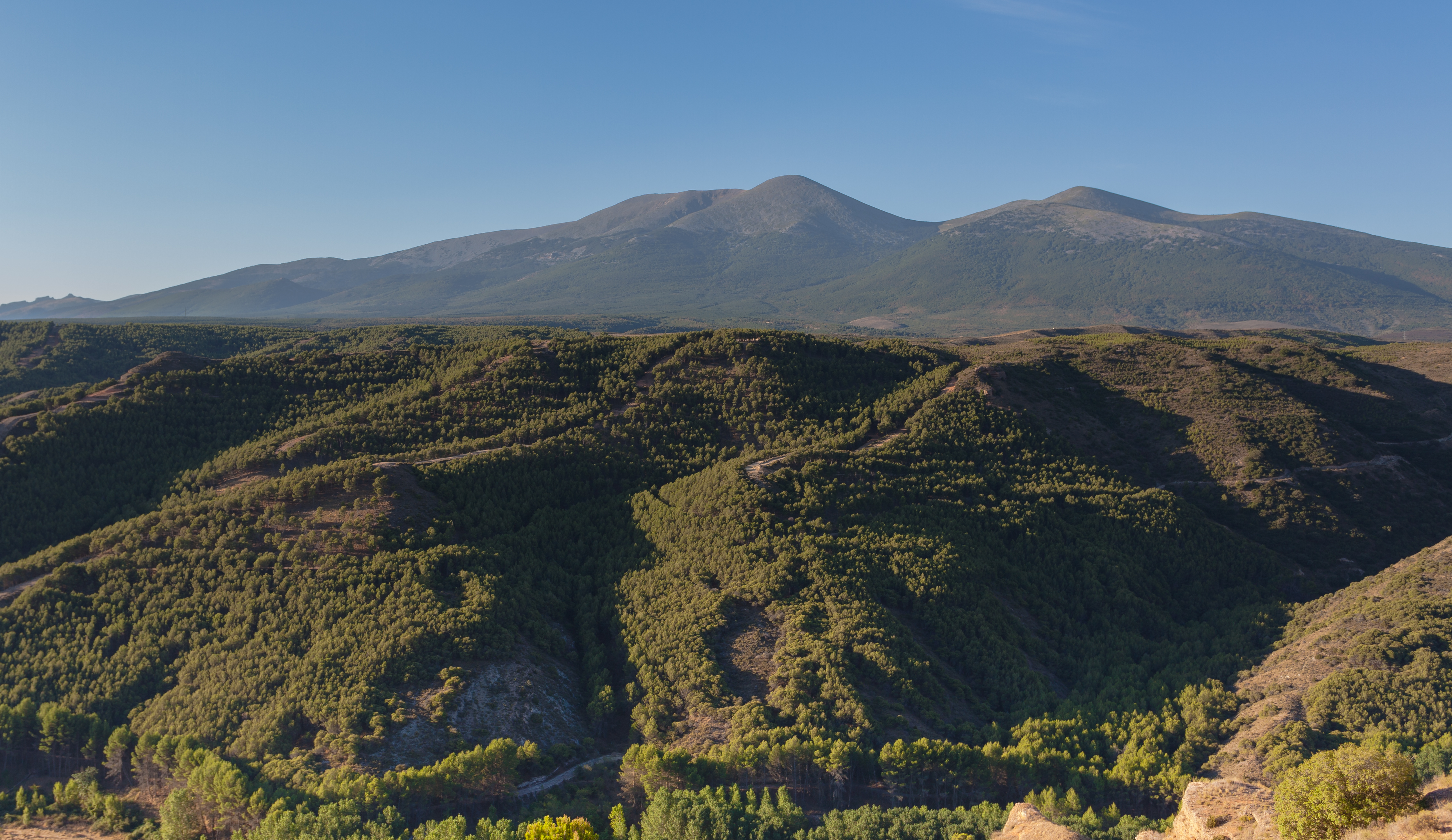 Moncayo, Ágreda, Spain